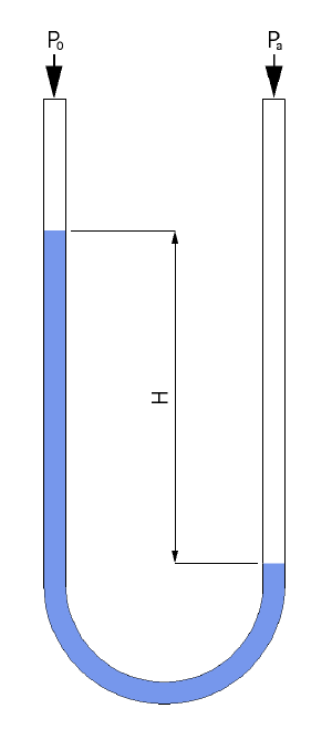 Schematic of a U tube differential pressure gauge